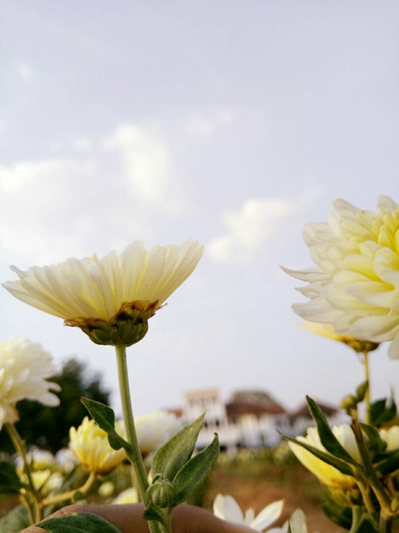 Flower crop